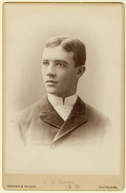 Photograph of Kenyon Vickers Painter in 1885